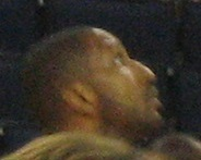 Sacramento Kings player Shareef Abdur-Rahim warms up before a game.